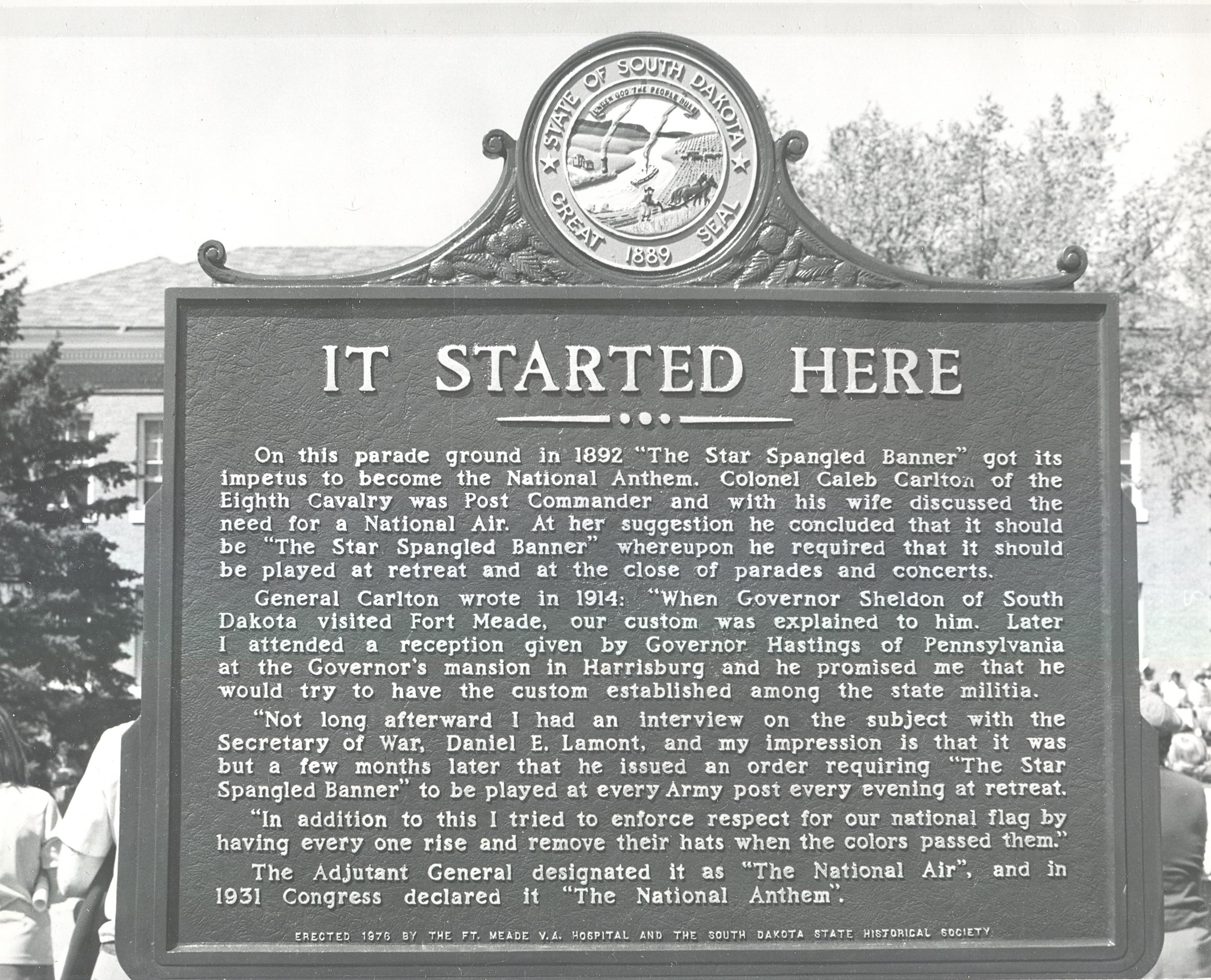 This is the historic marker of the "Star Spangled Banner" officially being started at Ft. Meade, SD in 1892.